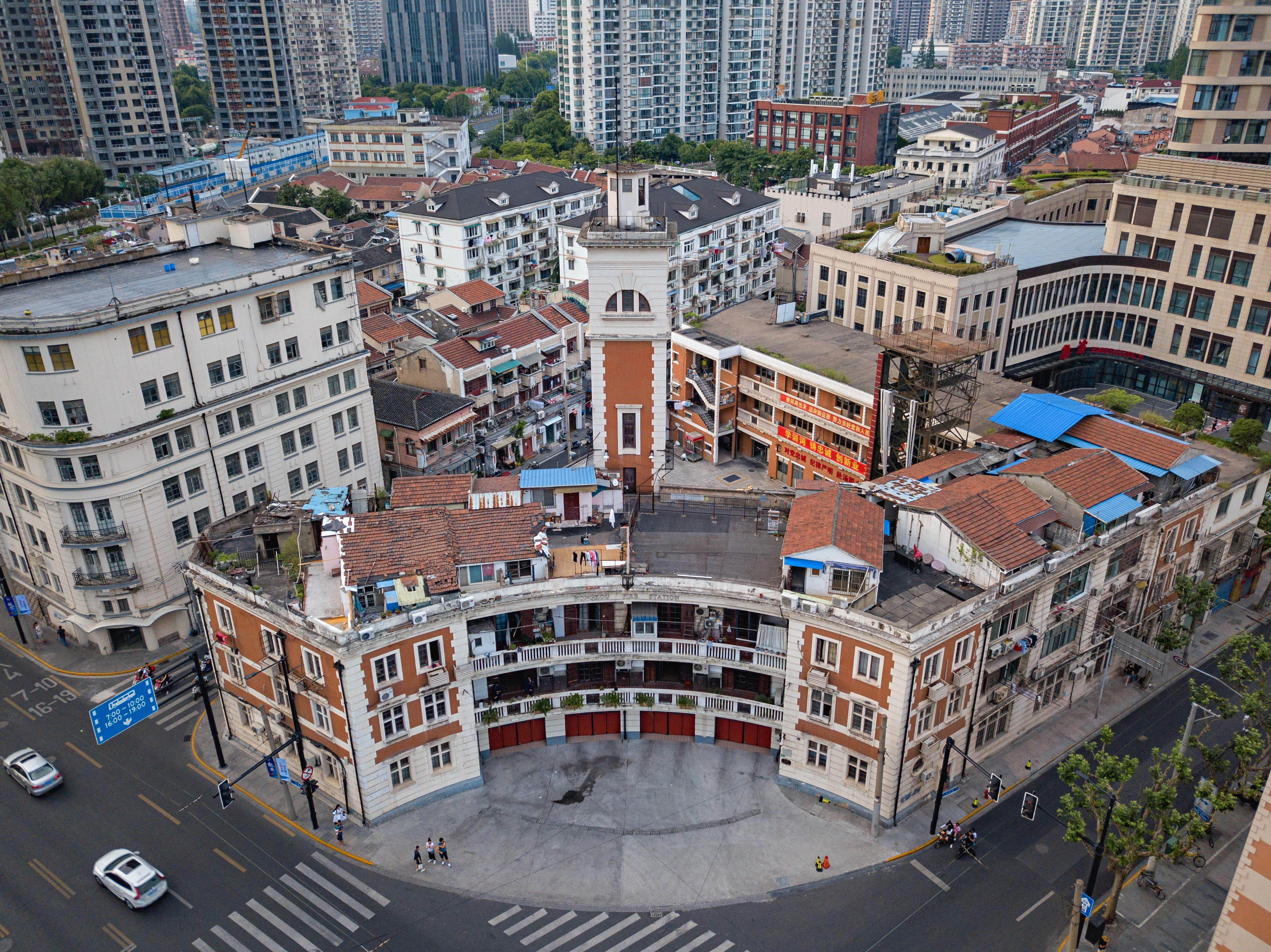 Hongkow Fire Station